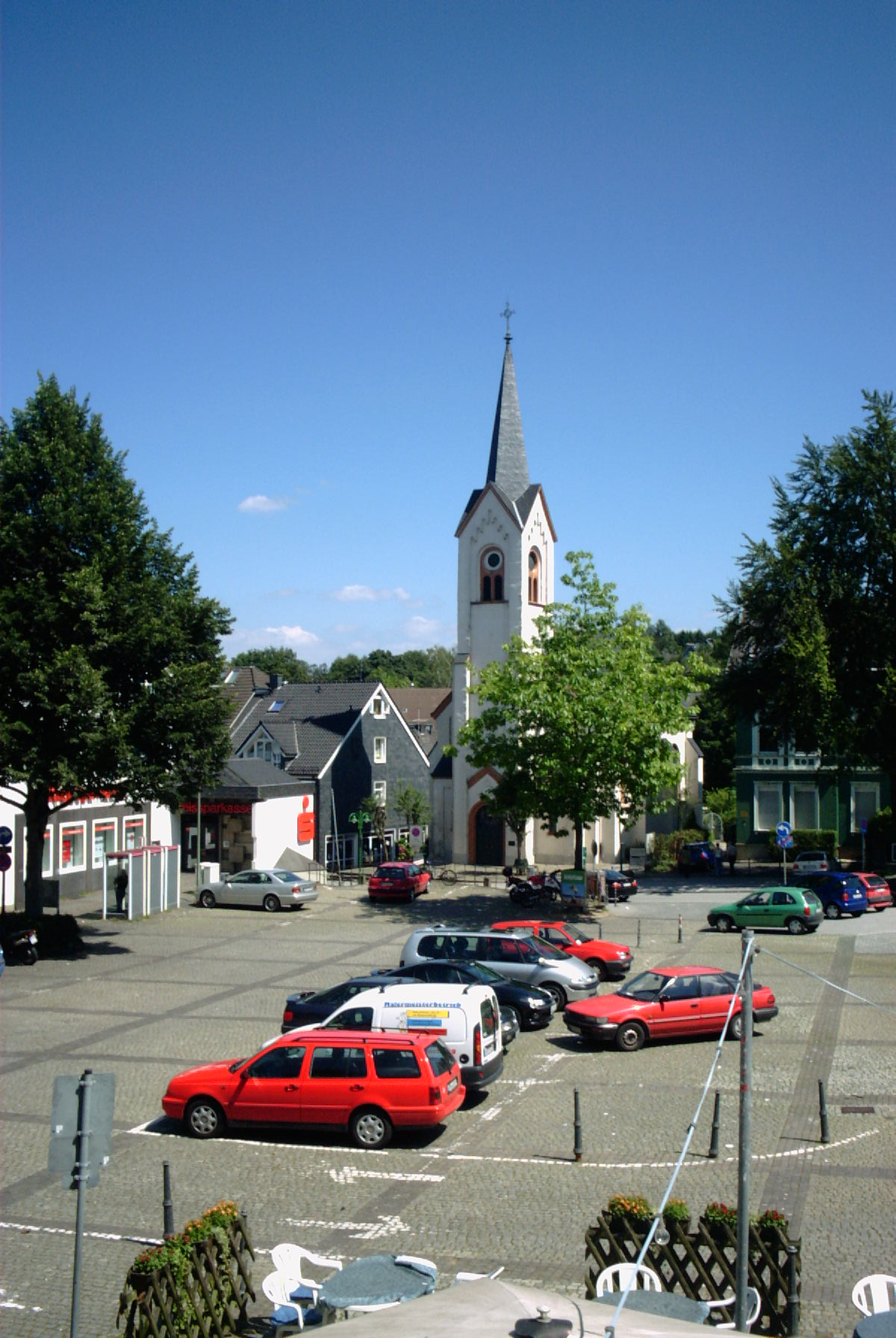 Ev. church of Wipperfürth - Ev. Kirche von Wipperfürth Author J. Berger Licence GNU FDL and CC-by-SA